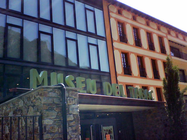 Tobacco Museum in Sant Julià de Loria (Andorra)